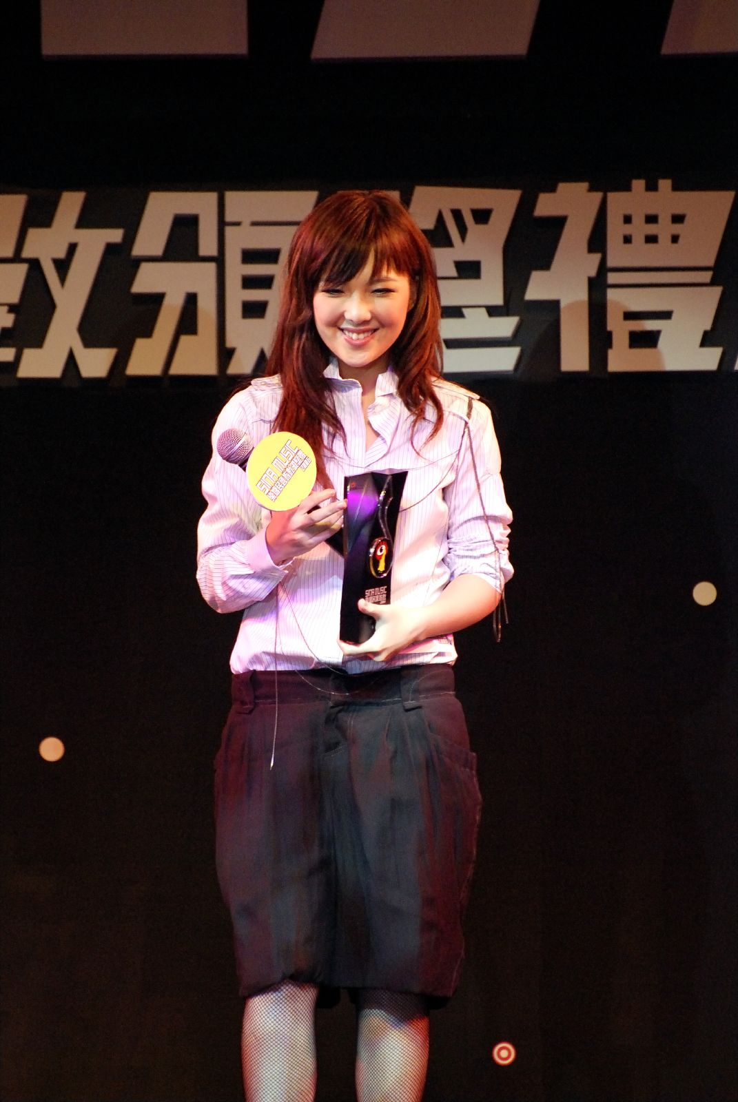 Janice Vidal at SINA Music樂壇民意指數頒獎禮 2006 (hosted on 29 January 2007)